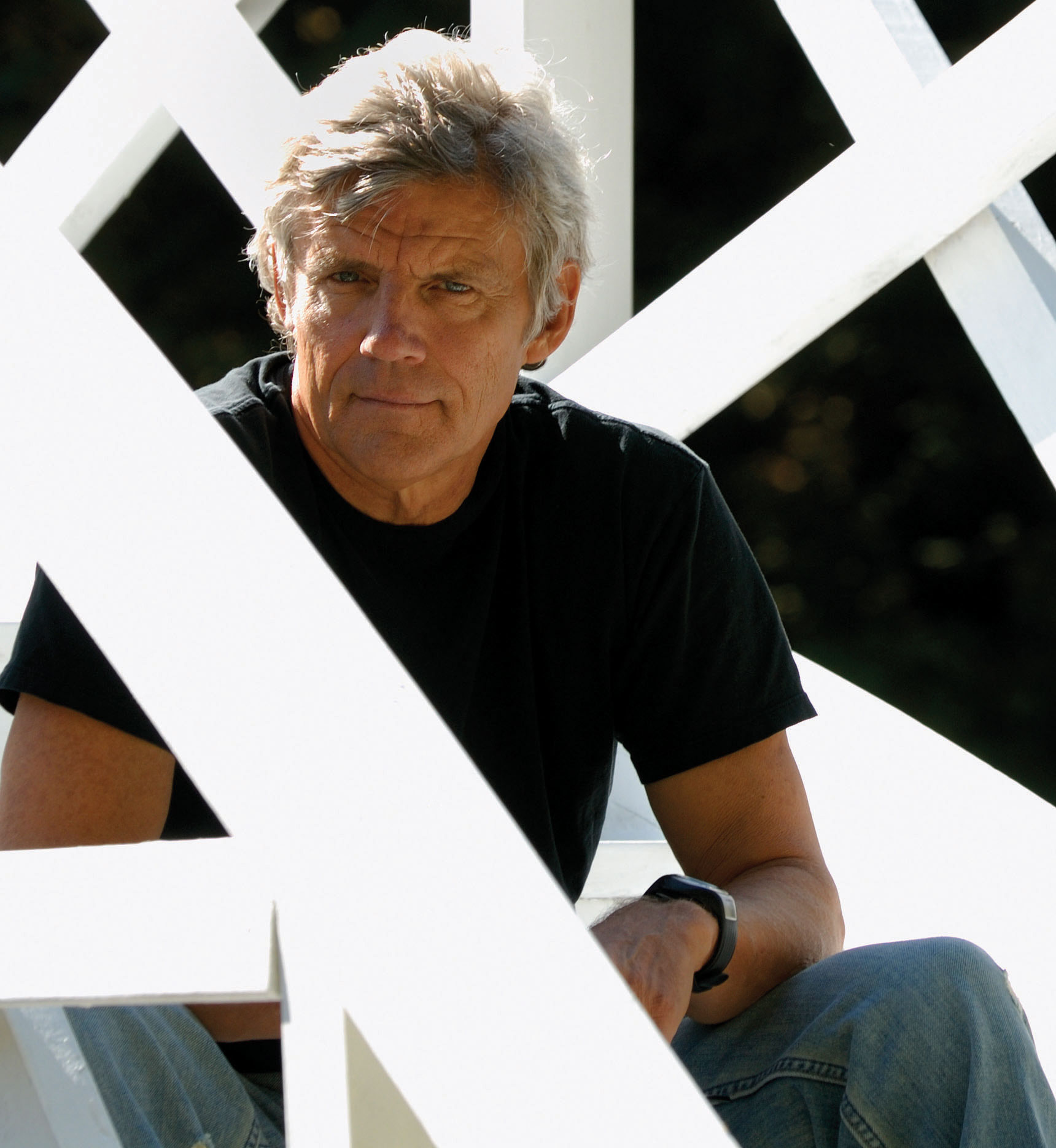 Academy Award-Winning Writer, Actor, Director Ernest Thompson